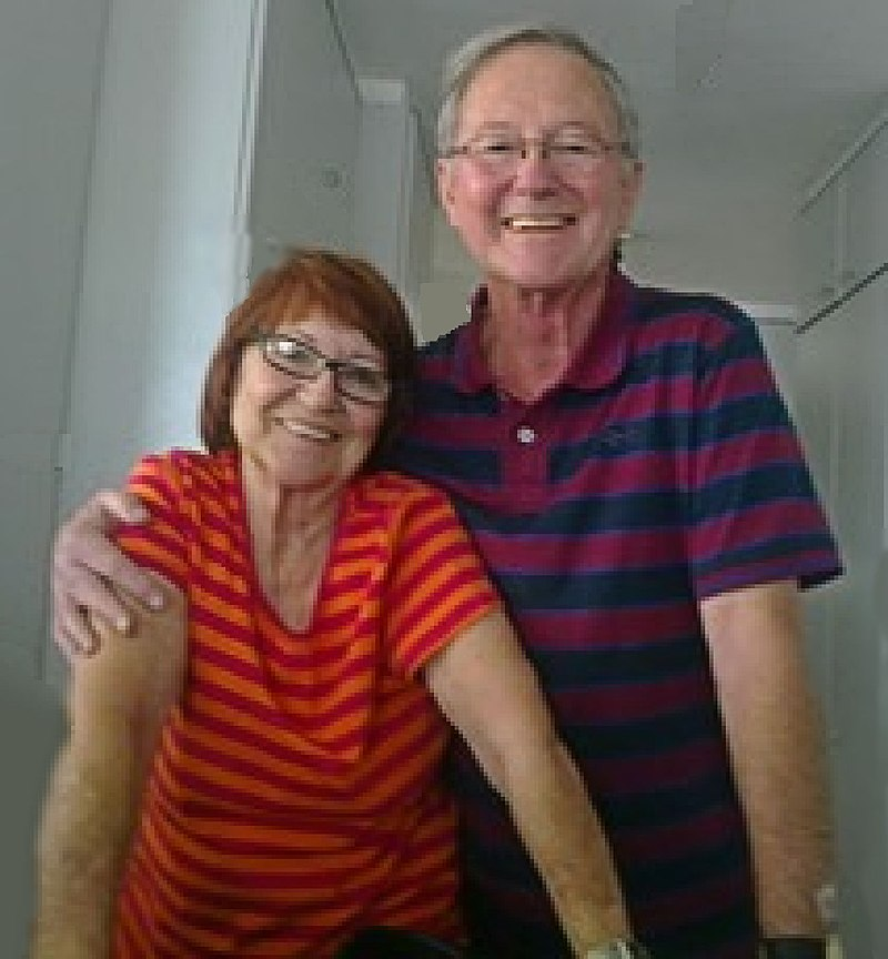 Niel Hammann, former editor-in-chief of South African magazines Huisgenoot and You, with his wife Marlene Hammann. Niel Hammann is being credited for having revolutionised Afrikaans magazine publishing in South Africa in the 1980s and 1990s, making Huisgenoot the undisputed leader in the field (for any language in South Africa). He took the reigns when shutting down the decades old magazine was seriously considered by its publishers in the late 1970s because of much declining readership figures (largely due to the introduction of public television in the country).